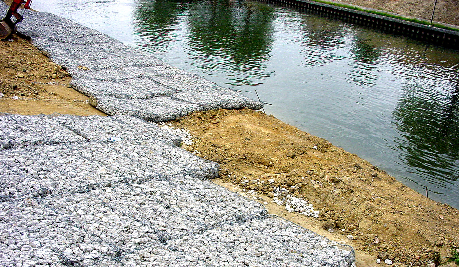 Gabions on the river Deûle (north of France, near Lille)